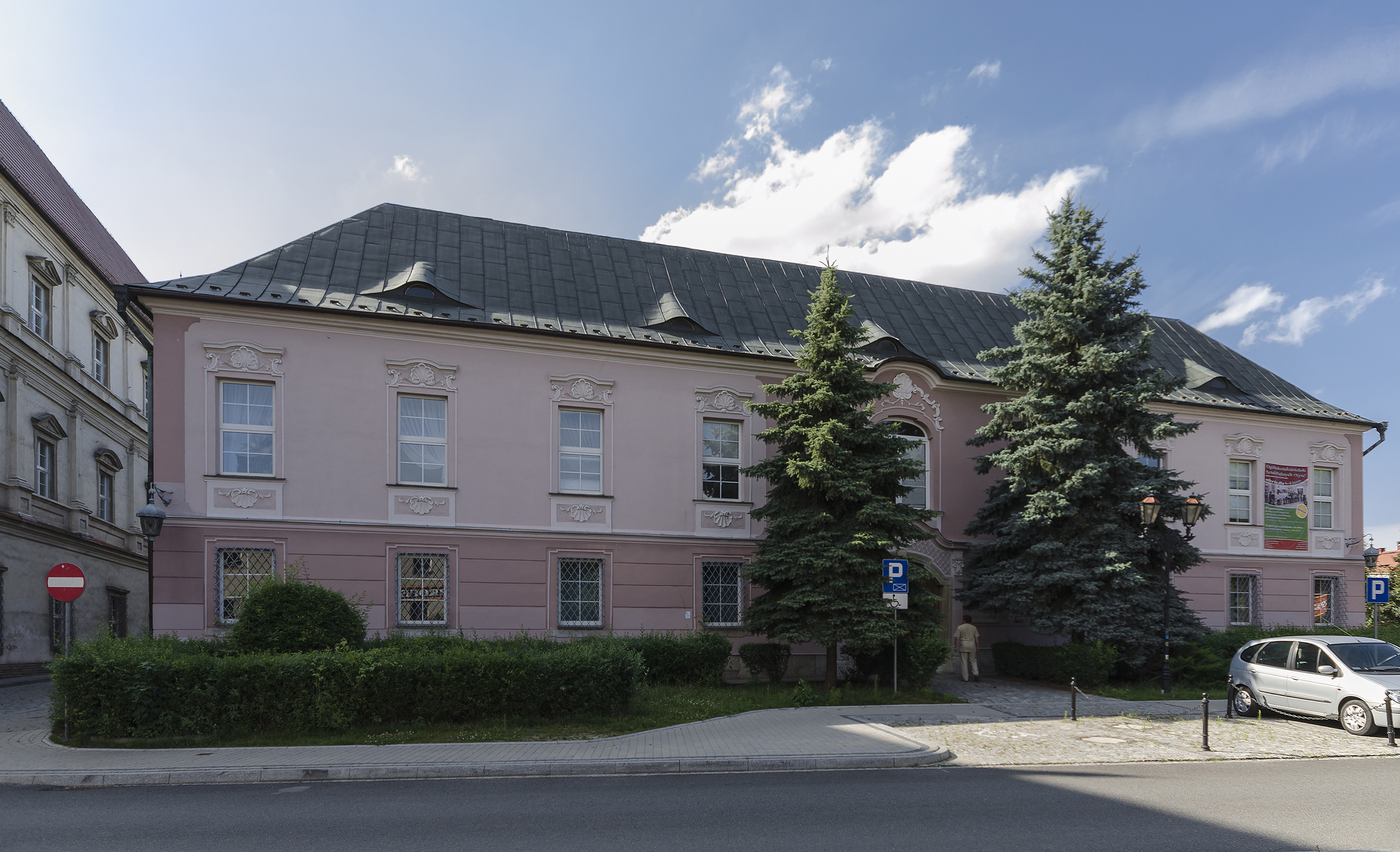 15 Grodzka Street in Nysa